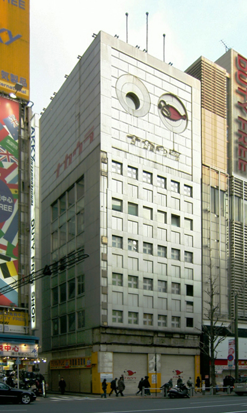 Nakaura_Electric_Shop Akihabara Japan Note : At 21st January 2007, Nakaura closed [1]. After destruction and construction of building, men's shop Aoki opened in 23rd October 2009 [2].